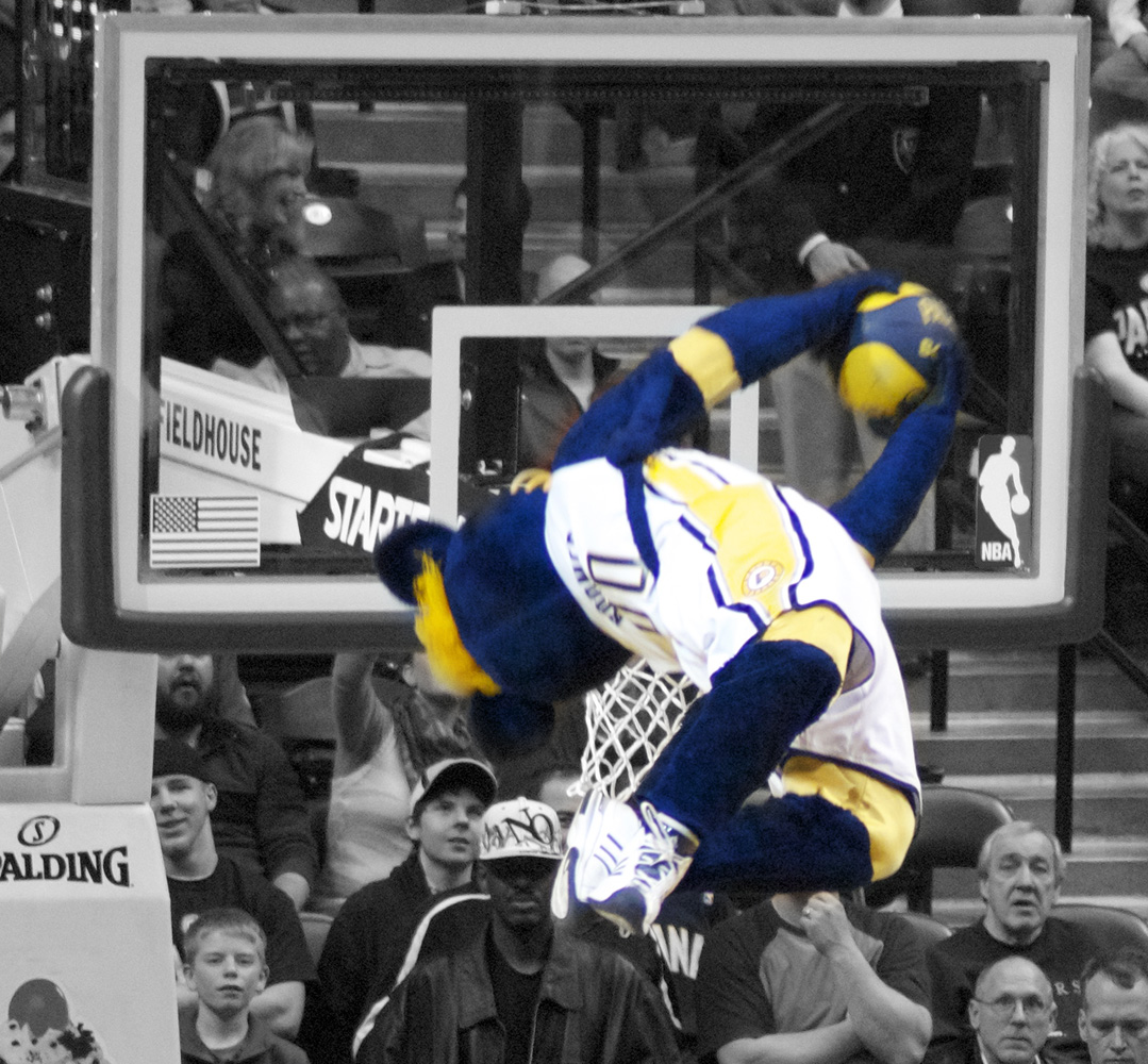 Boomer Taken at Pacers vs. Suns game in Indianapolis, Feb 27, 2011